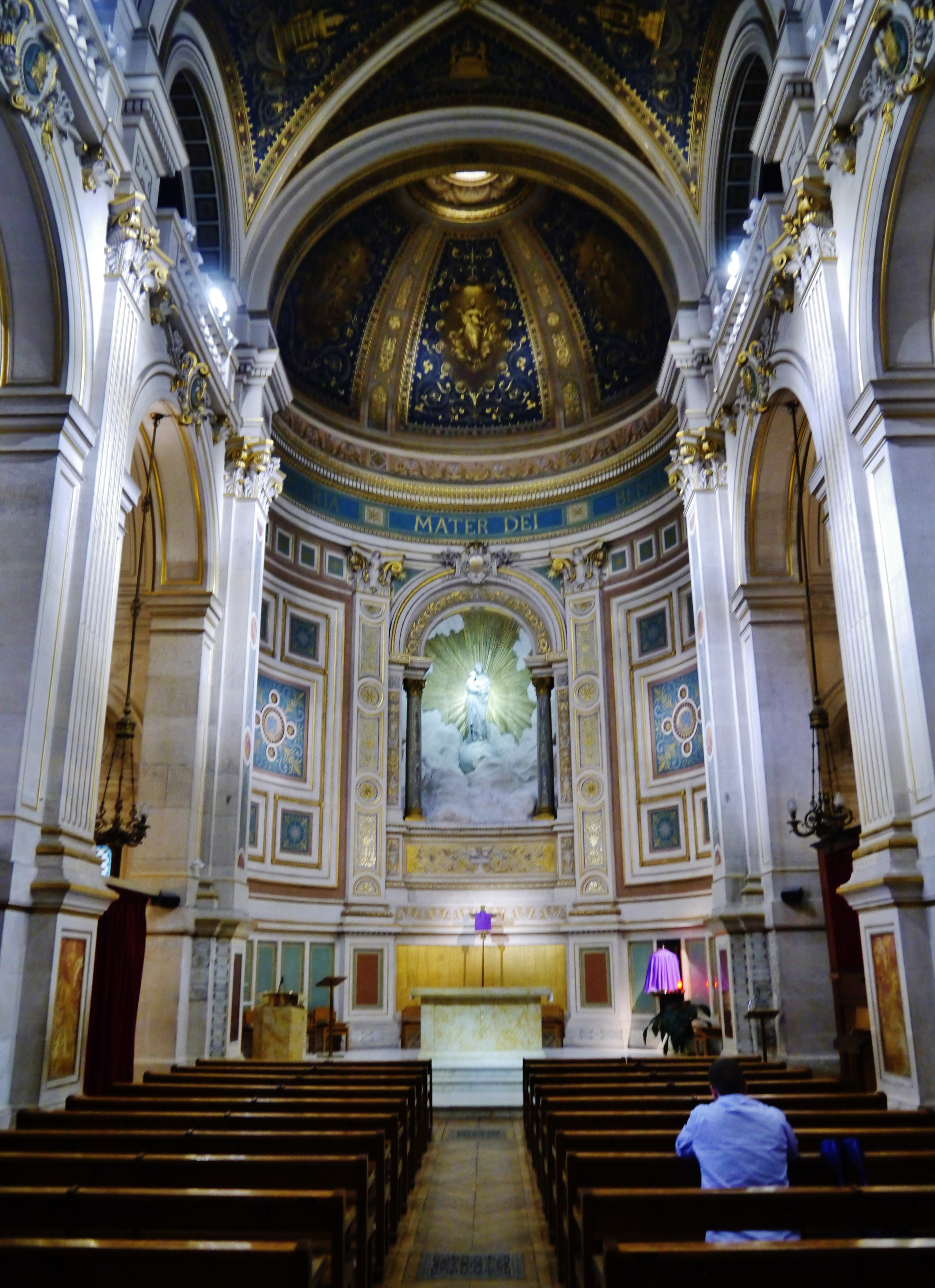 Choir Chapel of the Church St. Francis Xavier of the Foreign Missions, Paris, Region of Île-de-France, France